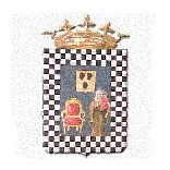 My version of the Santa Ana de Coro coat of arms.